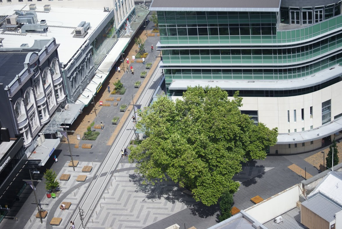 High Street and Cashel Street Intersection, Christchurch